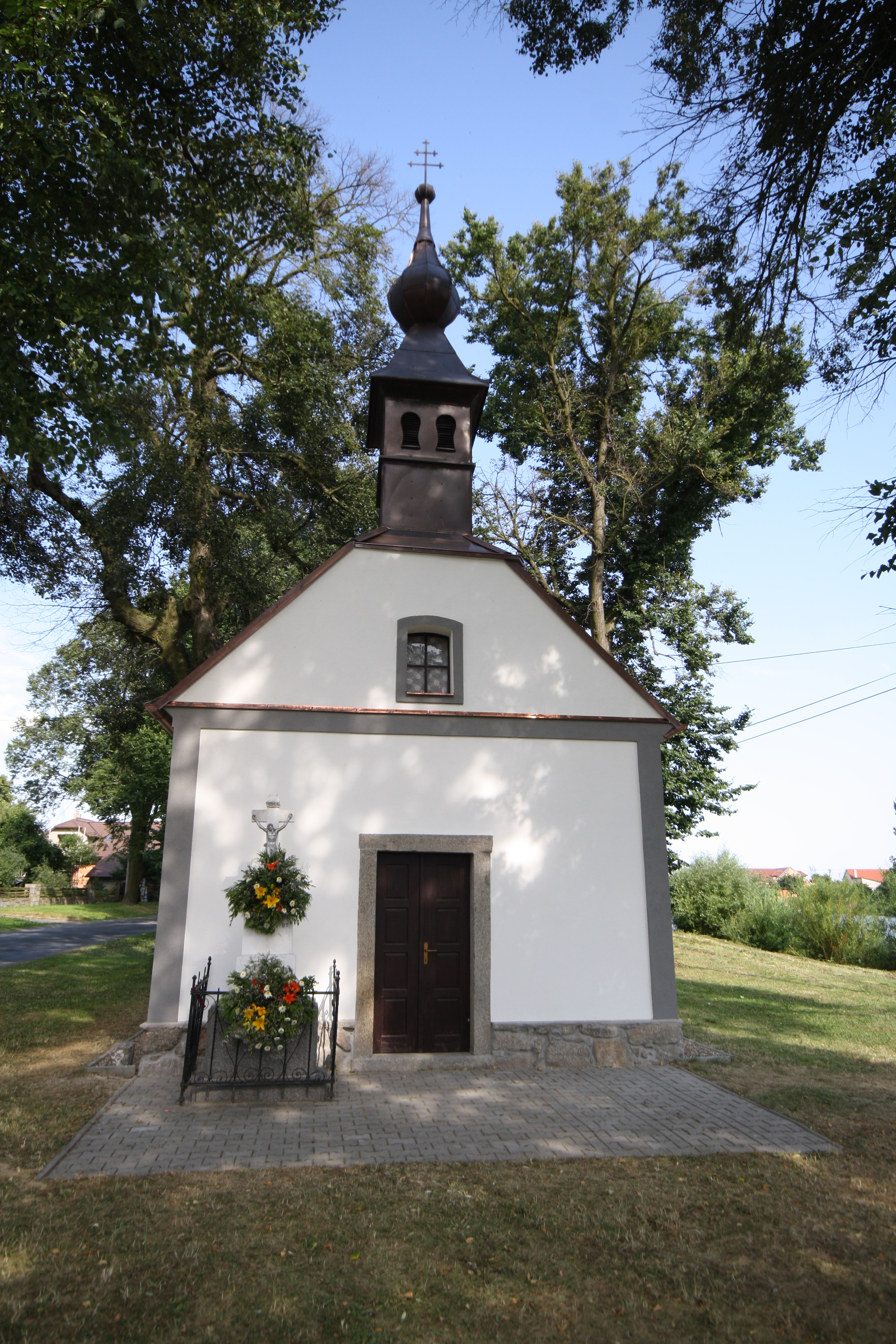 Chapel of Saint Cyril and Methodius in Zahrádka, Třebíč District.